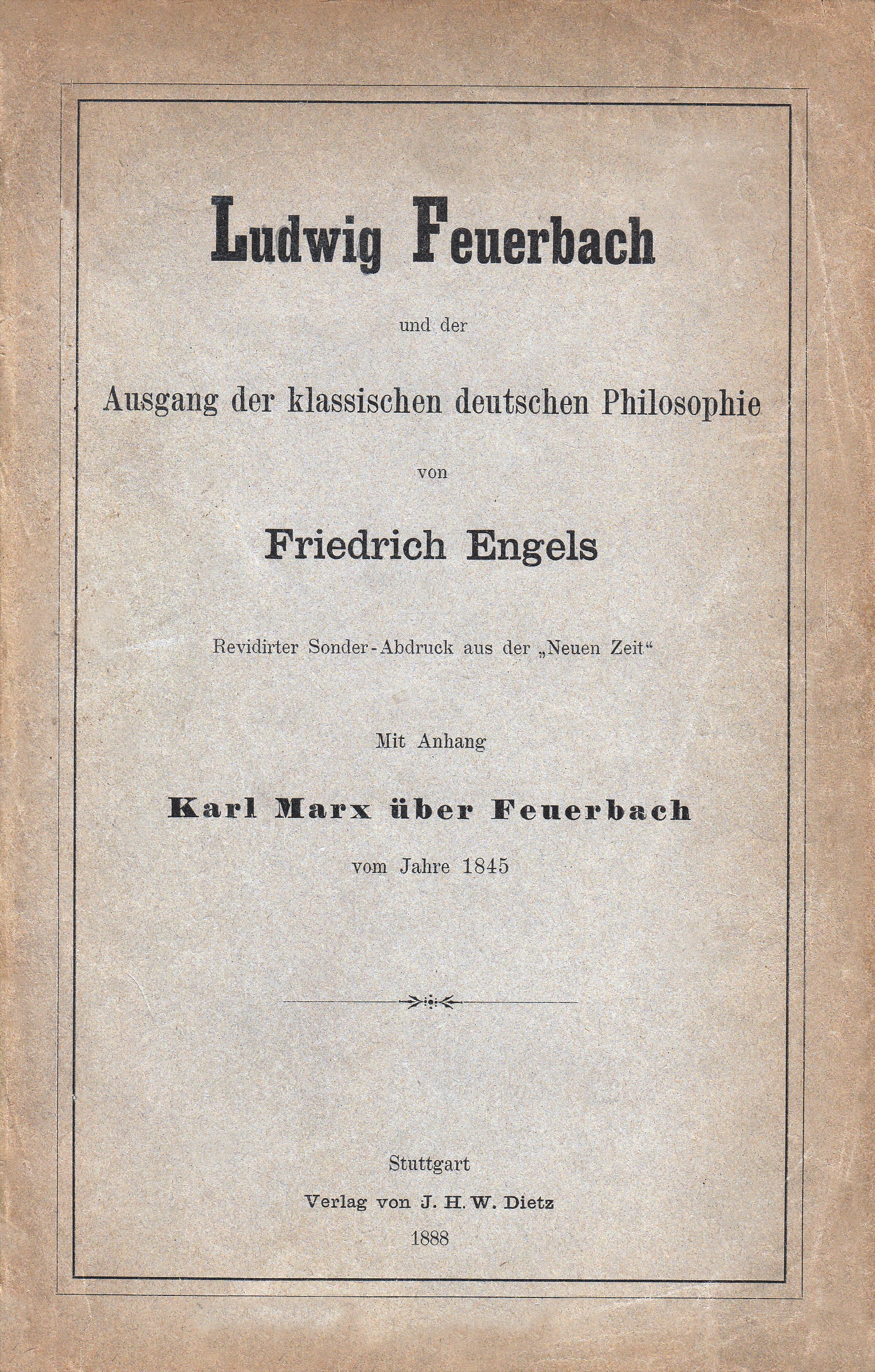 Cover of Ludwig Feuerbach und der Ausgang der Klassischen deutschen Philosophie (Berlin: Dietz, 1888). by Frederick Engels (1820-1895).